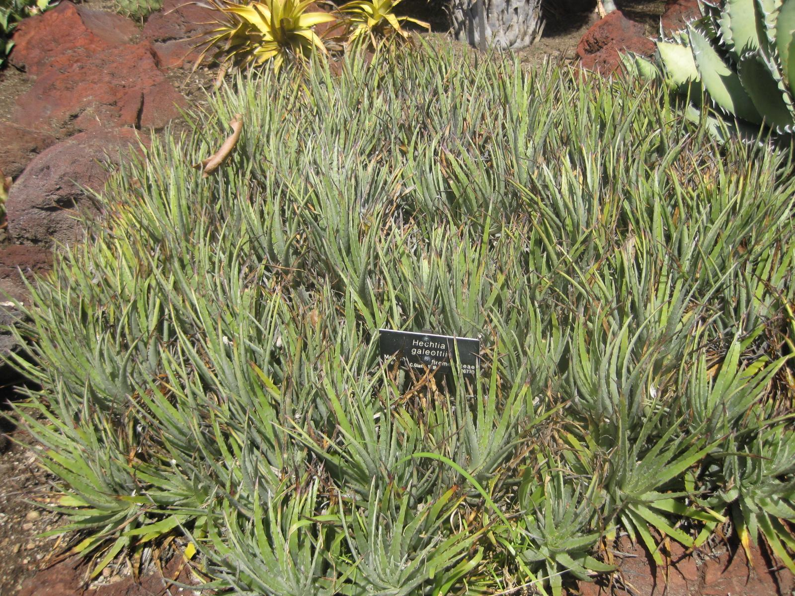 Hechtia galeottii. Photographed at Huntington Gardens (Los Angeles) in March